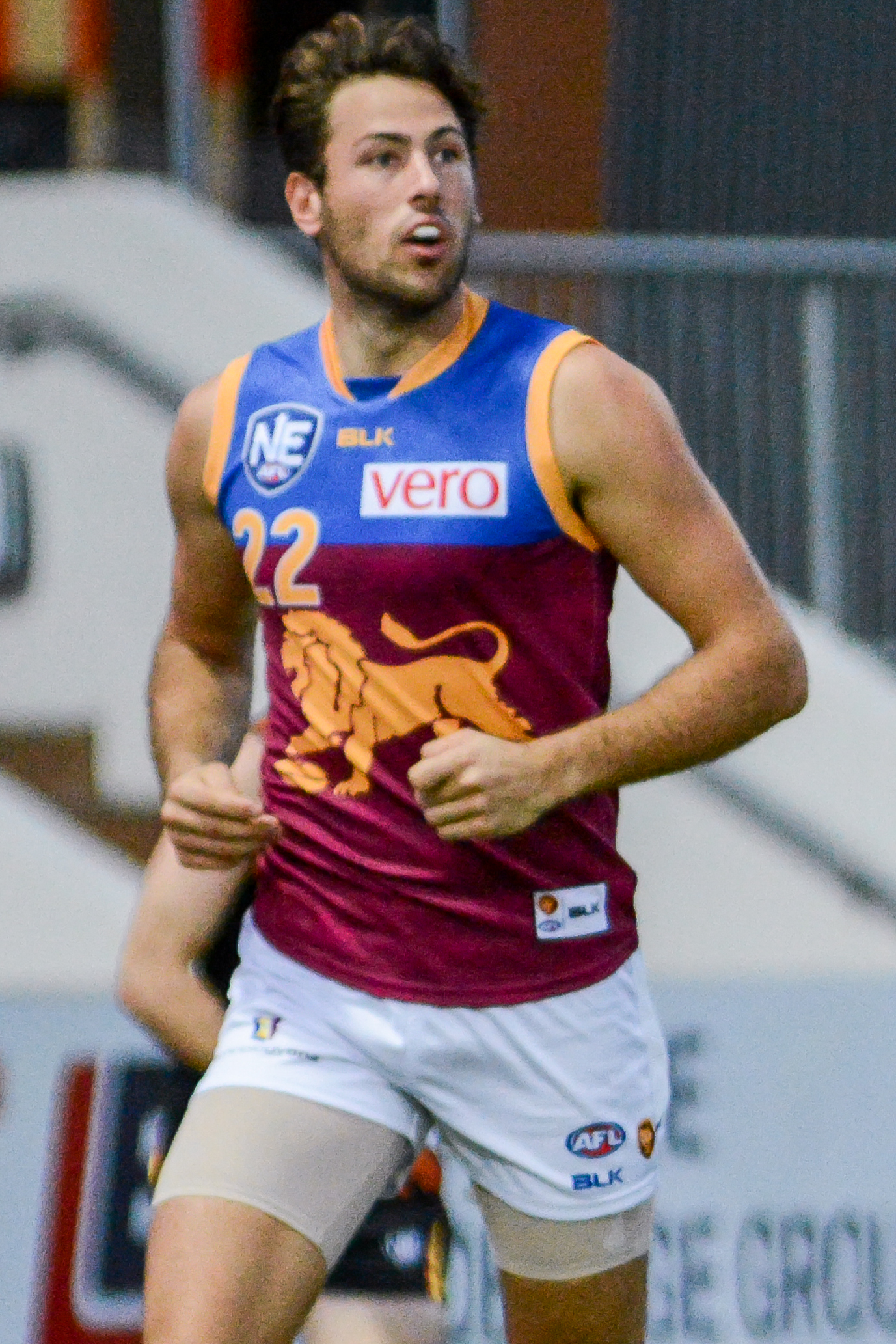 Marco Paparone in June 2015